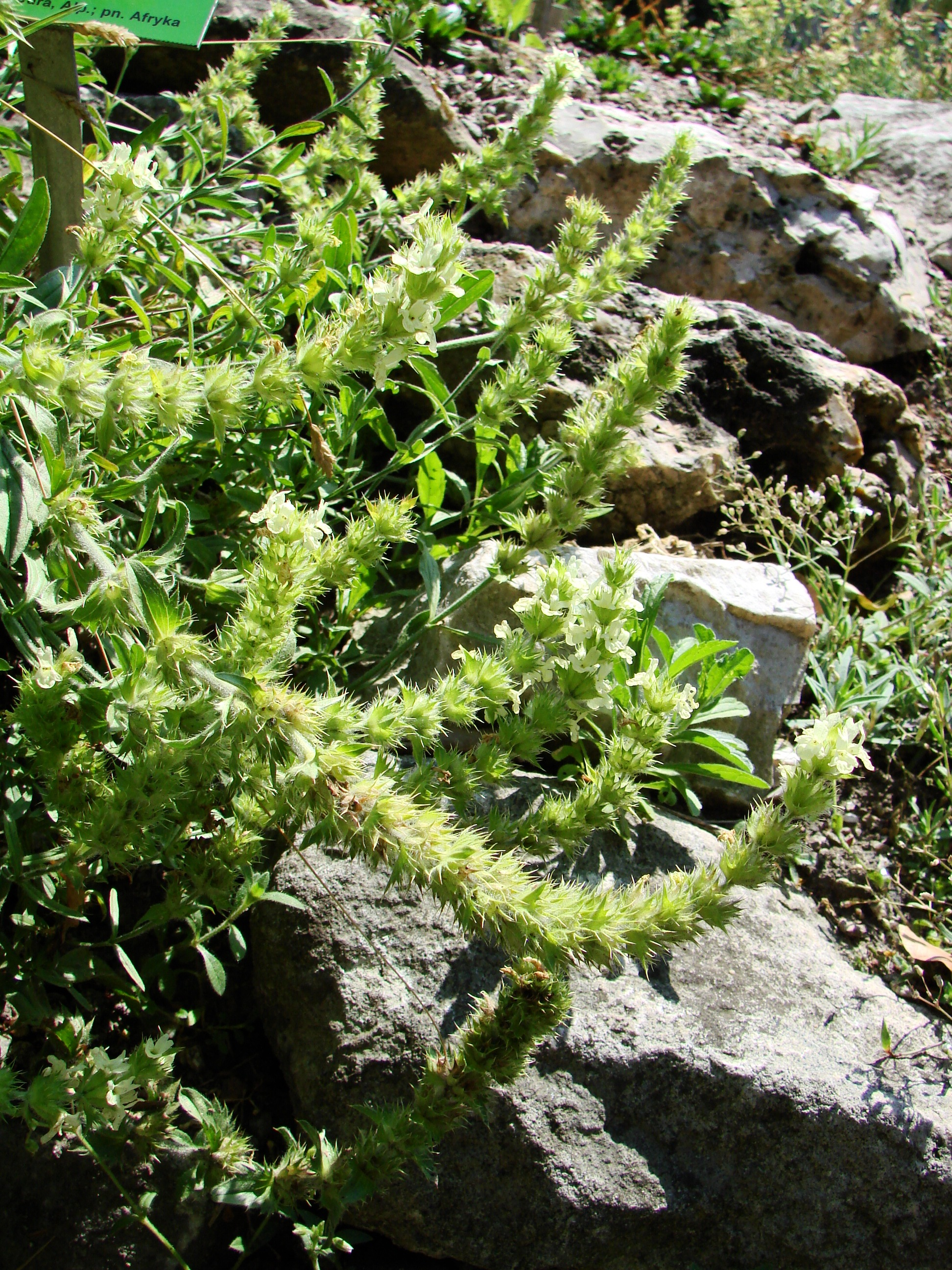 Picture taken in the university botanical garden of Wrocław (Poland): Sideritis hyssopifolia L.